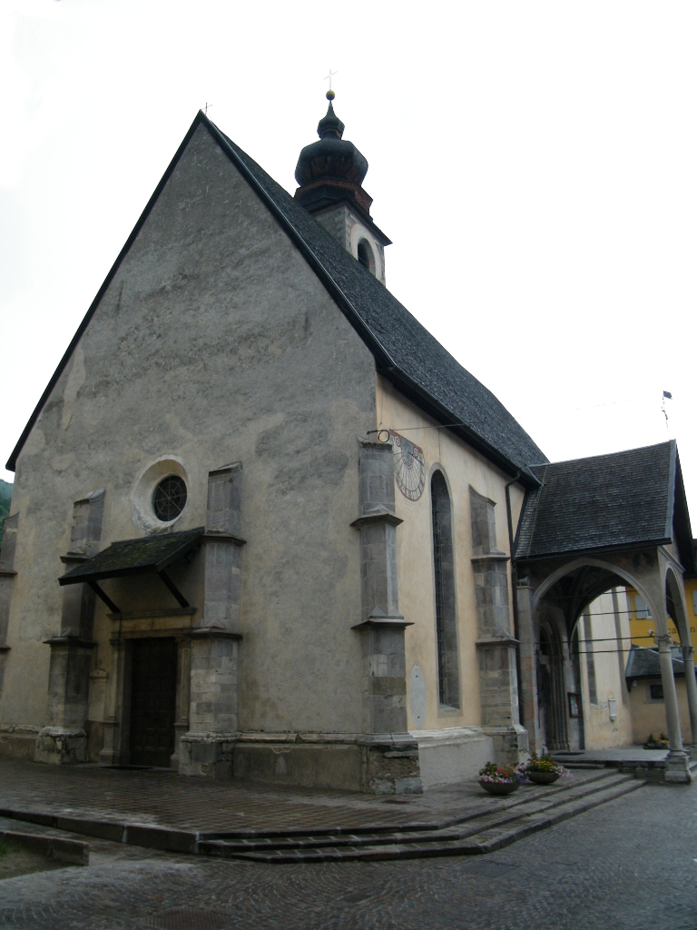 Church of St Mary. Pellizzano